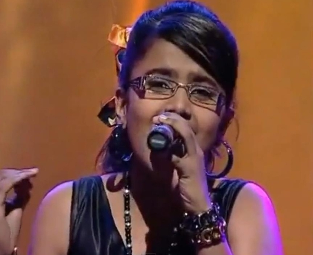 Rakshitha singing at super singer junior 3